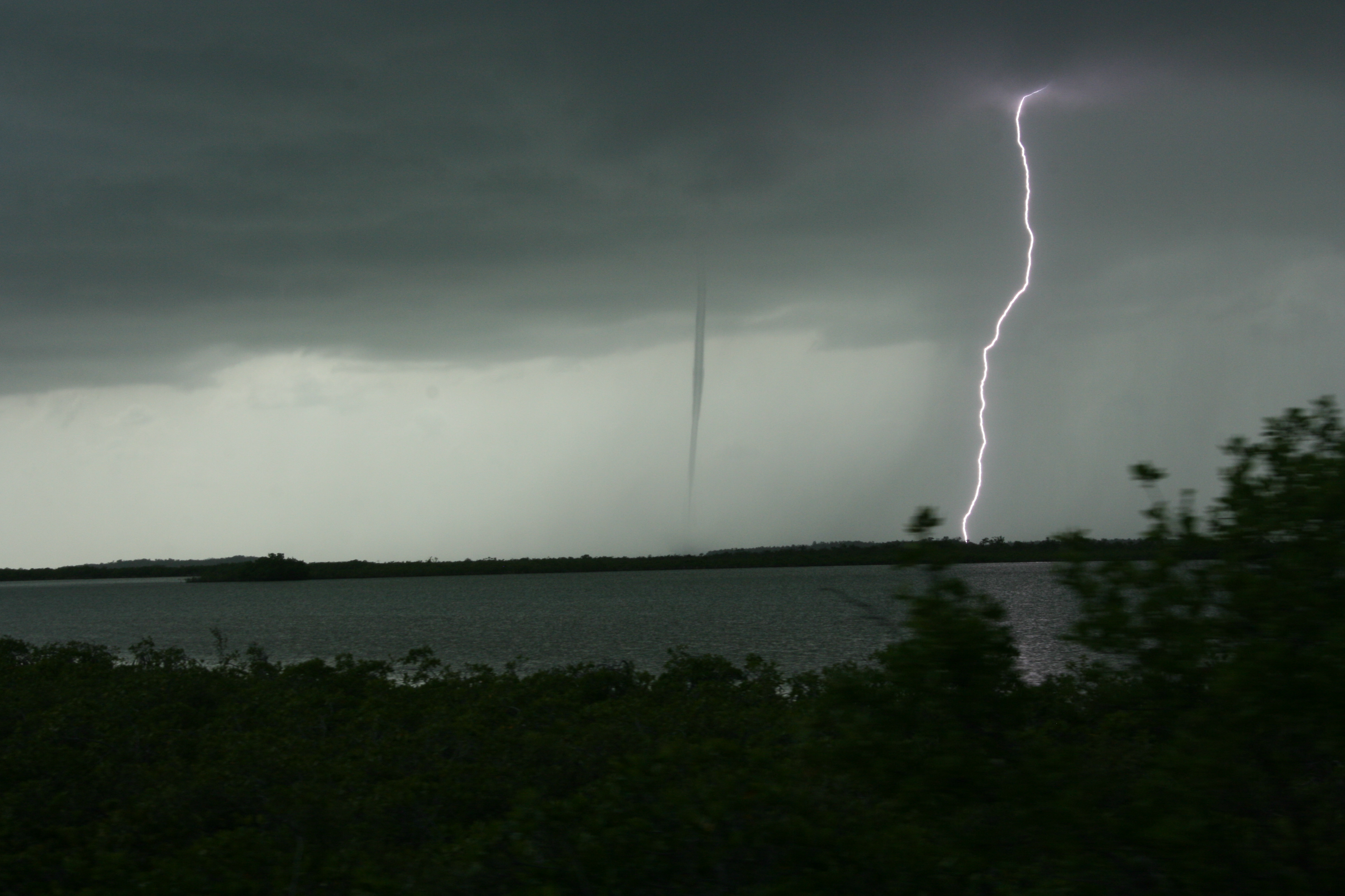 A tornado and lightning in the Florida Keys.